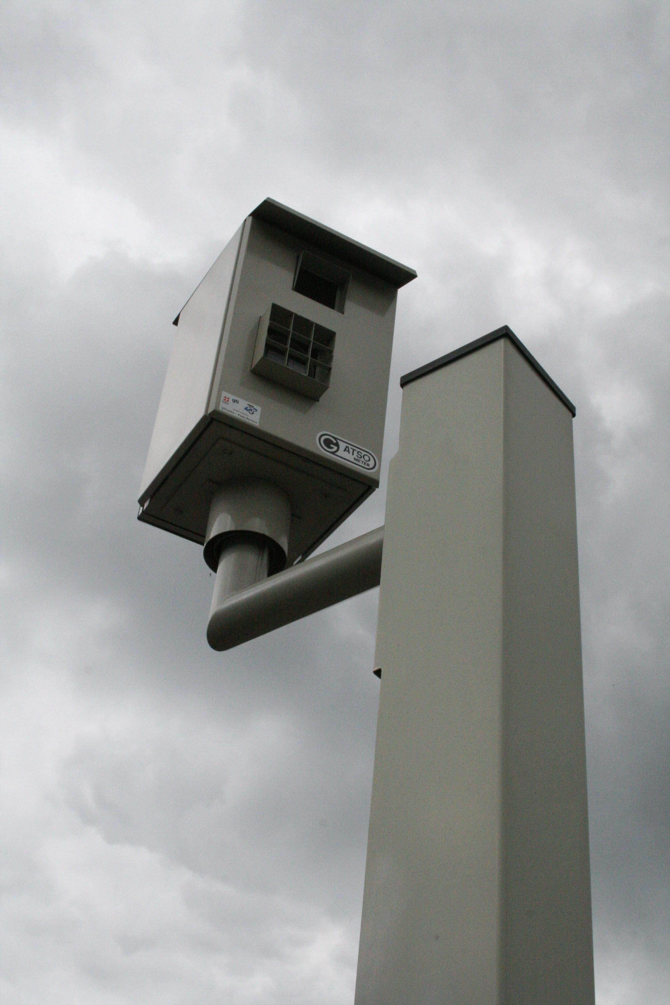 Photo of a radar in Belgium